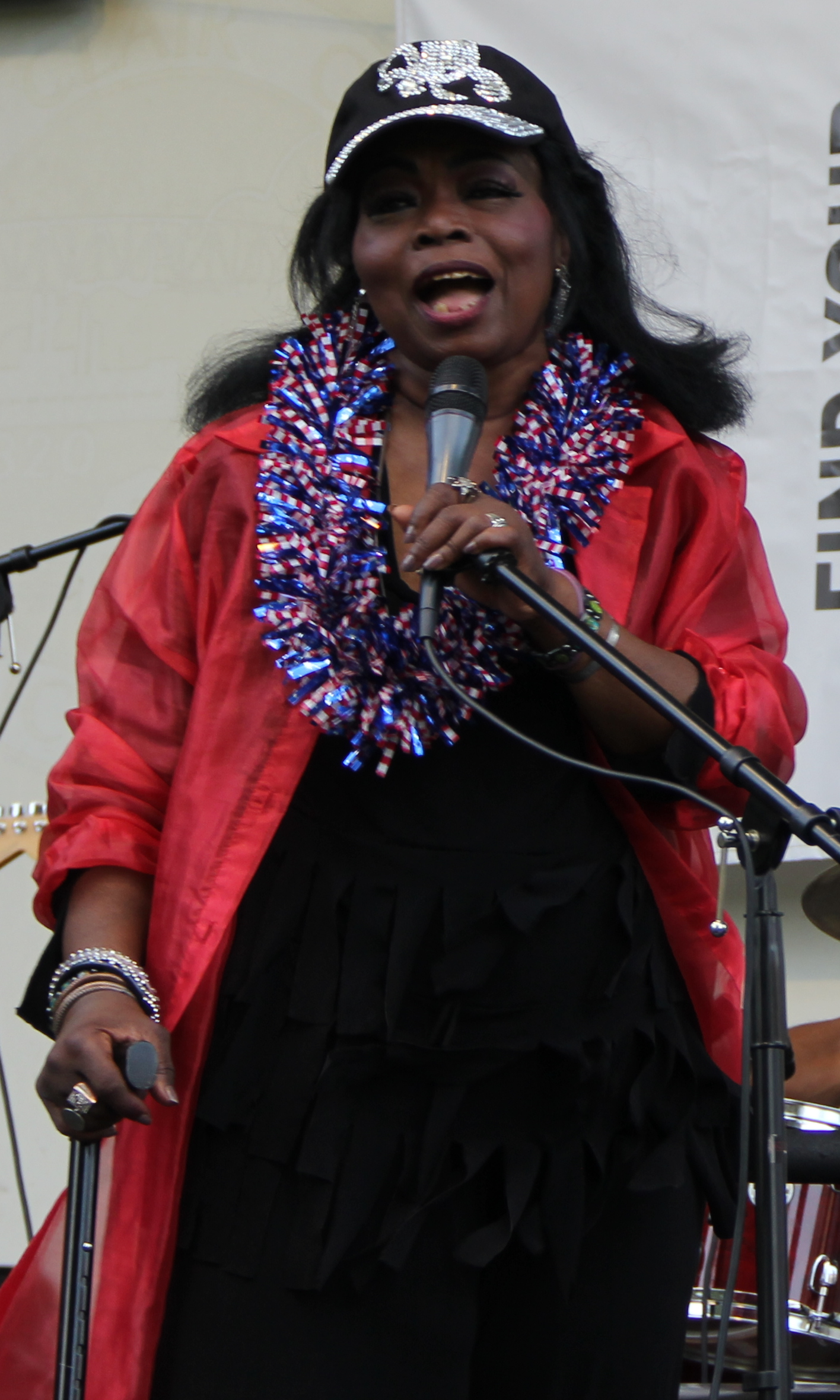 Ms. Ruby Wilson, the "Queen of Beale Street" performes Memphis Blues at Shiloh on July 2, 2016. Part of the Centennial Concert Series on the battlefield.